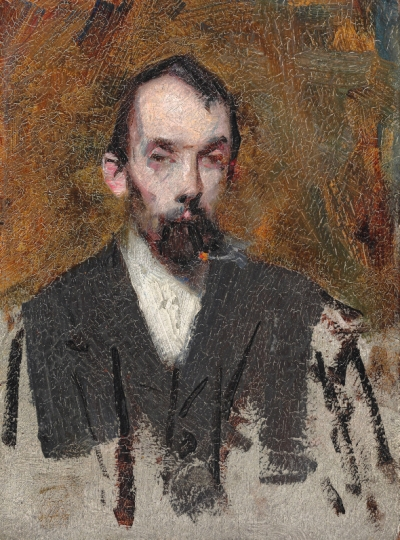 Portrait of Australian tobacconist and art patron Louis Abrahams smoking a cigar, painting by Arthur Streeton, oil on panel, 8¼ x 6⅛ in (21 x 15.5 cm.